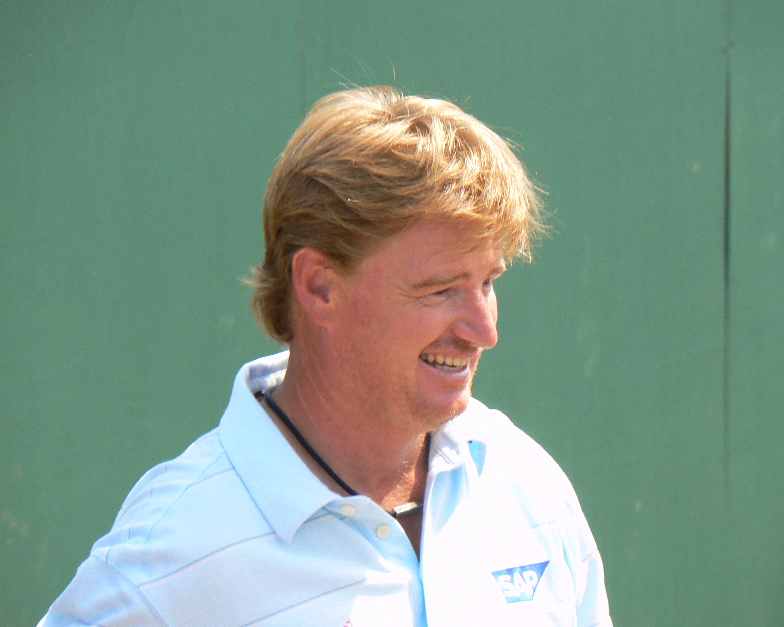 Ernie Els, South African golfer